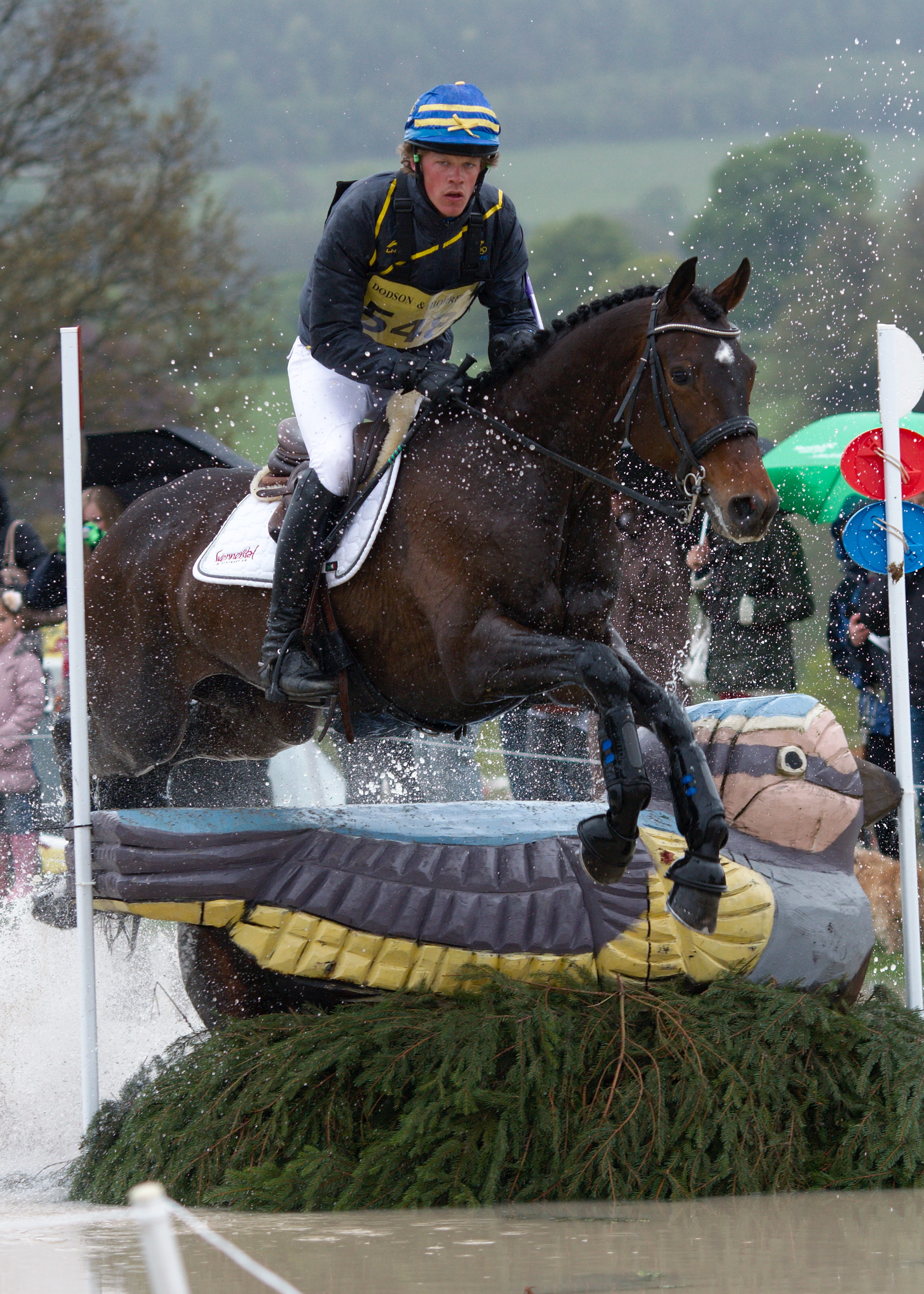 Ludwig Svennerstal and Tempranillo at the Ice Pond during the cross-country phase of the CIC*** (Section I) competition at Chatsworth International Horse Trials 2013.